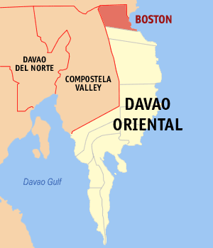 Map of the Davao Oriental showing the location of Boston